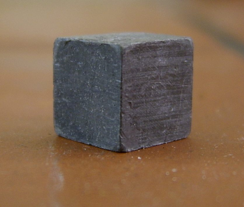 A metal cube of Lead